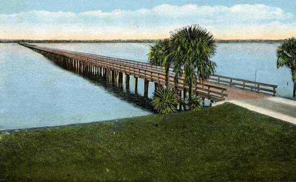 Old Tamiami Trail Bridge